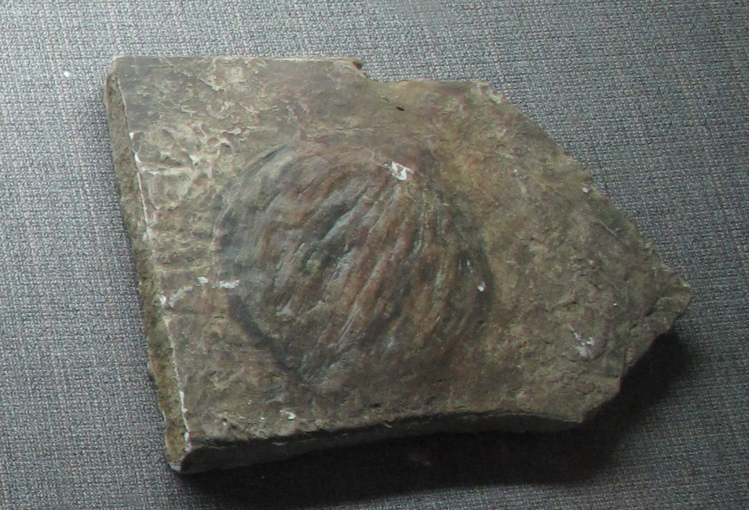 Maotianoascus octonarius - Chongqing Beibei Museum